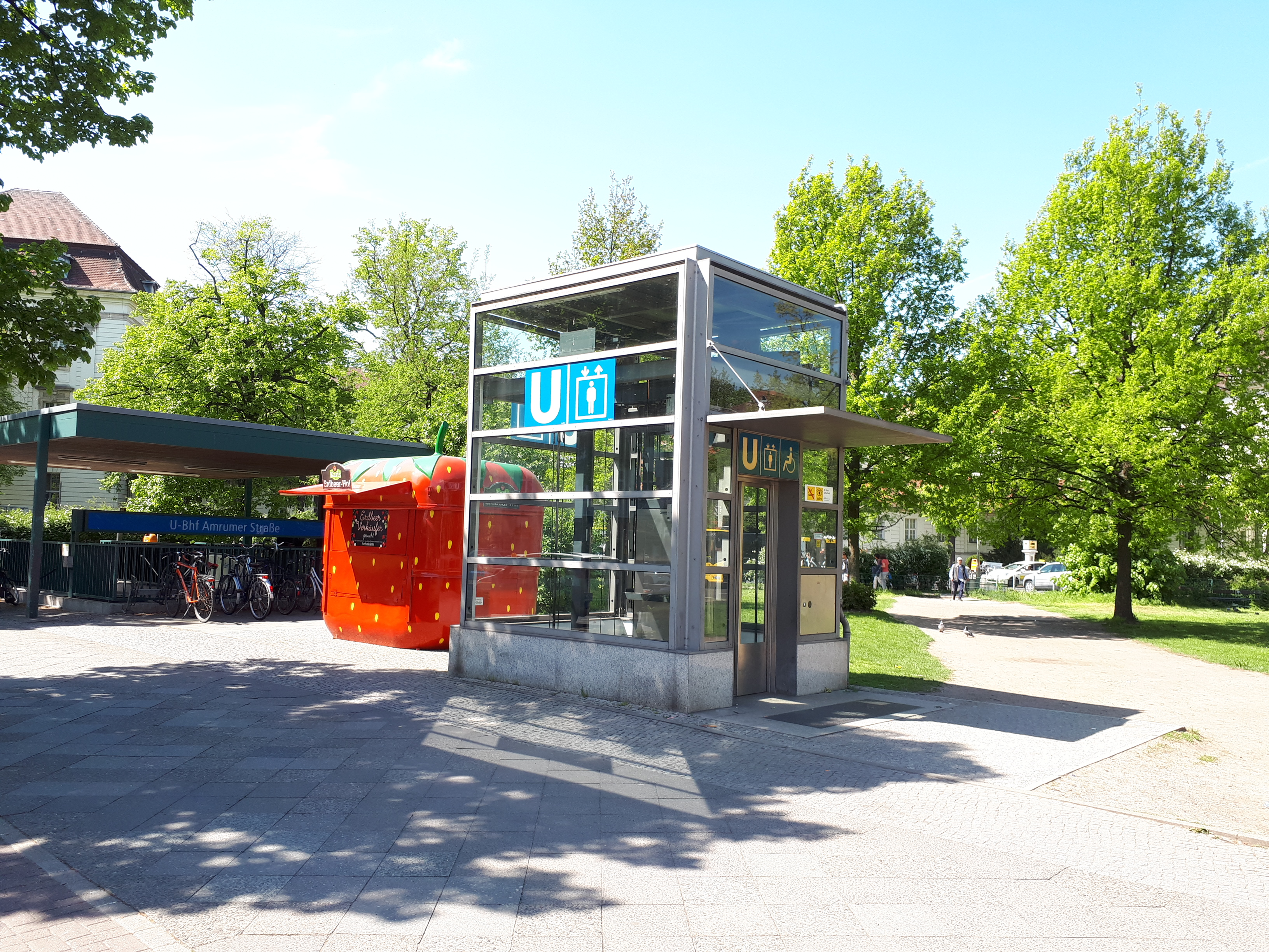 Amrumer Straße U-Bahn station, elevator on Augustenburger Platz, Berlin, Germany